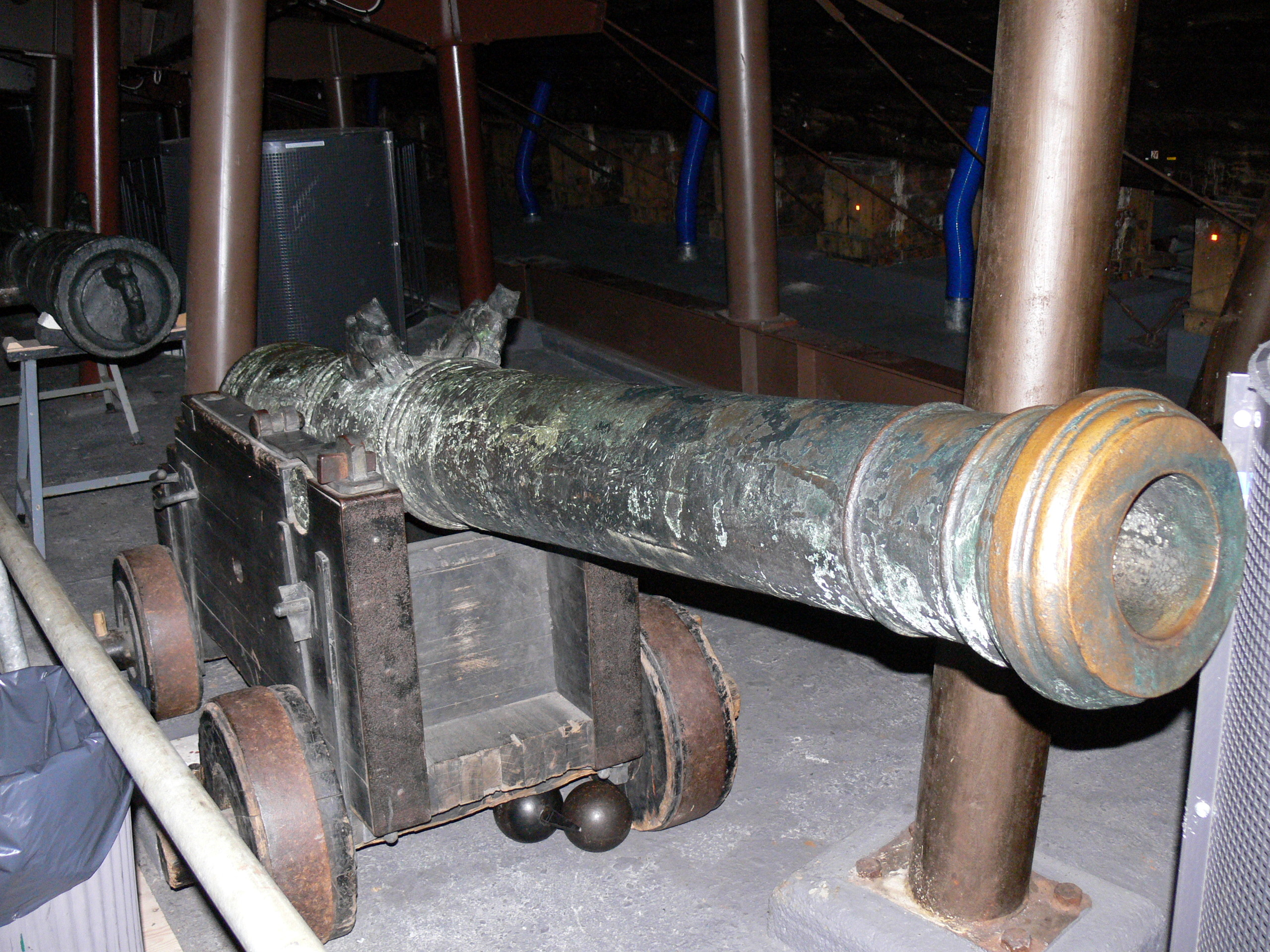 Vasa Museum. Cannon.